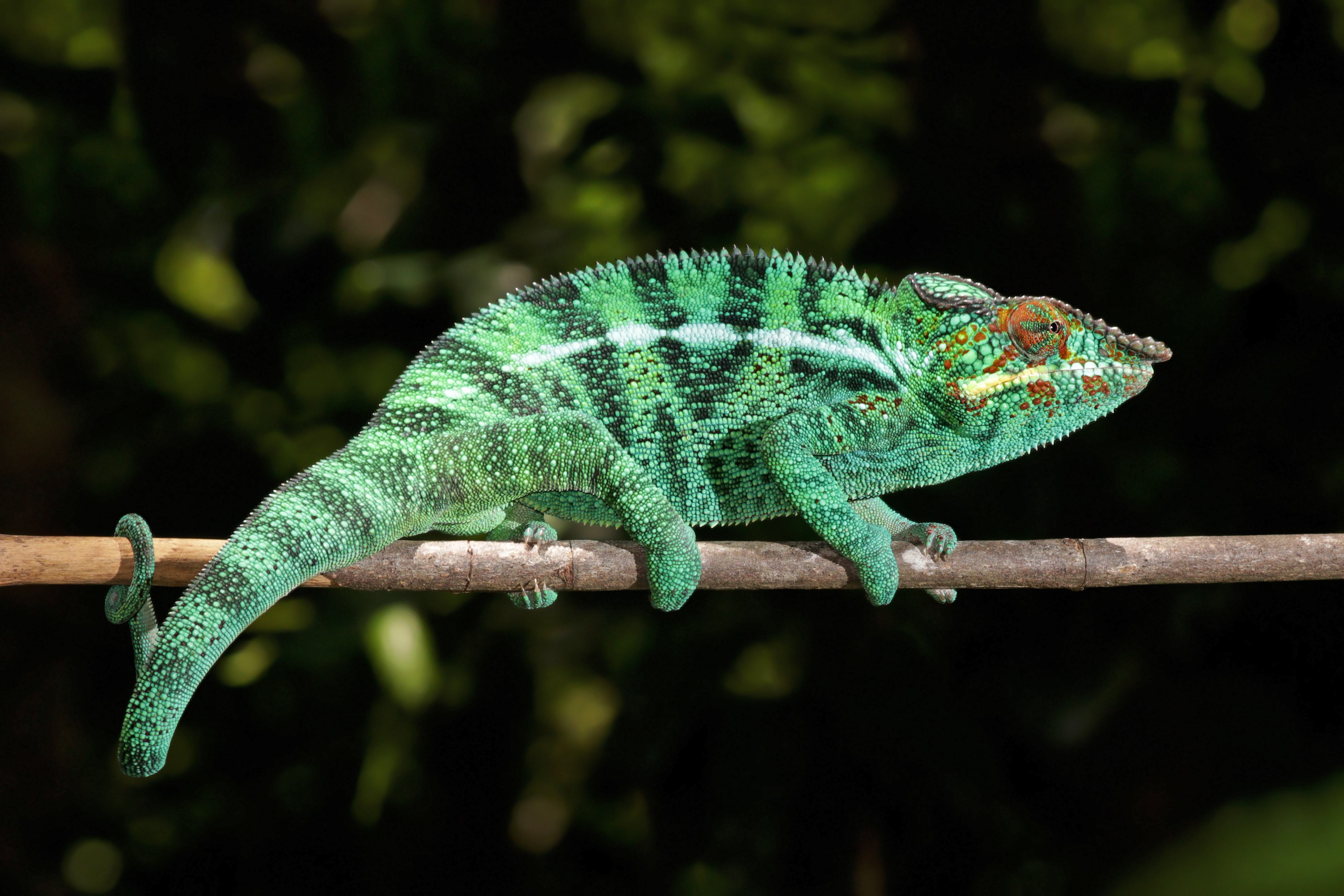 Panther chameleon (Furcifer pardalis) male, Lokobe Strict Reserve, Nosy Be, Madagascar